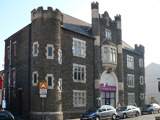 Former drill hall, Lower Dock Street This building was opened in 1904 and was the Drill Hall of the 4th Battalion of the South Wales Borderers. It was recently used as a fitness centre and is now a Christian centre.